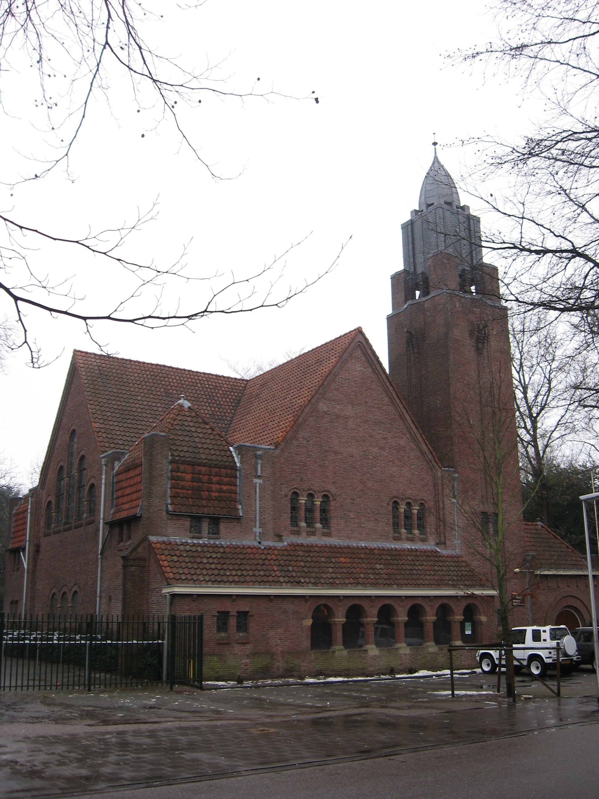 Spieghelkerk, Nieuwe 's-Gravelandseweg 34